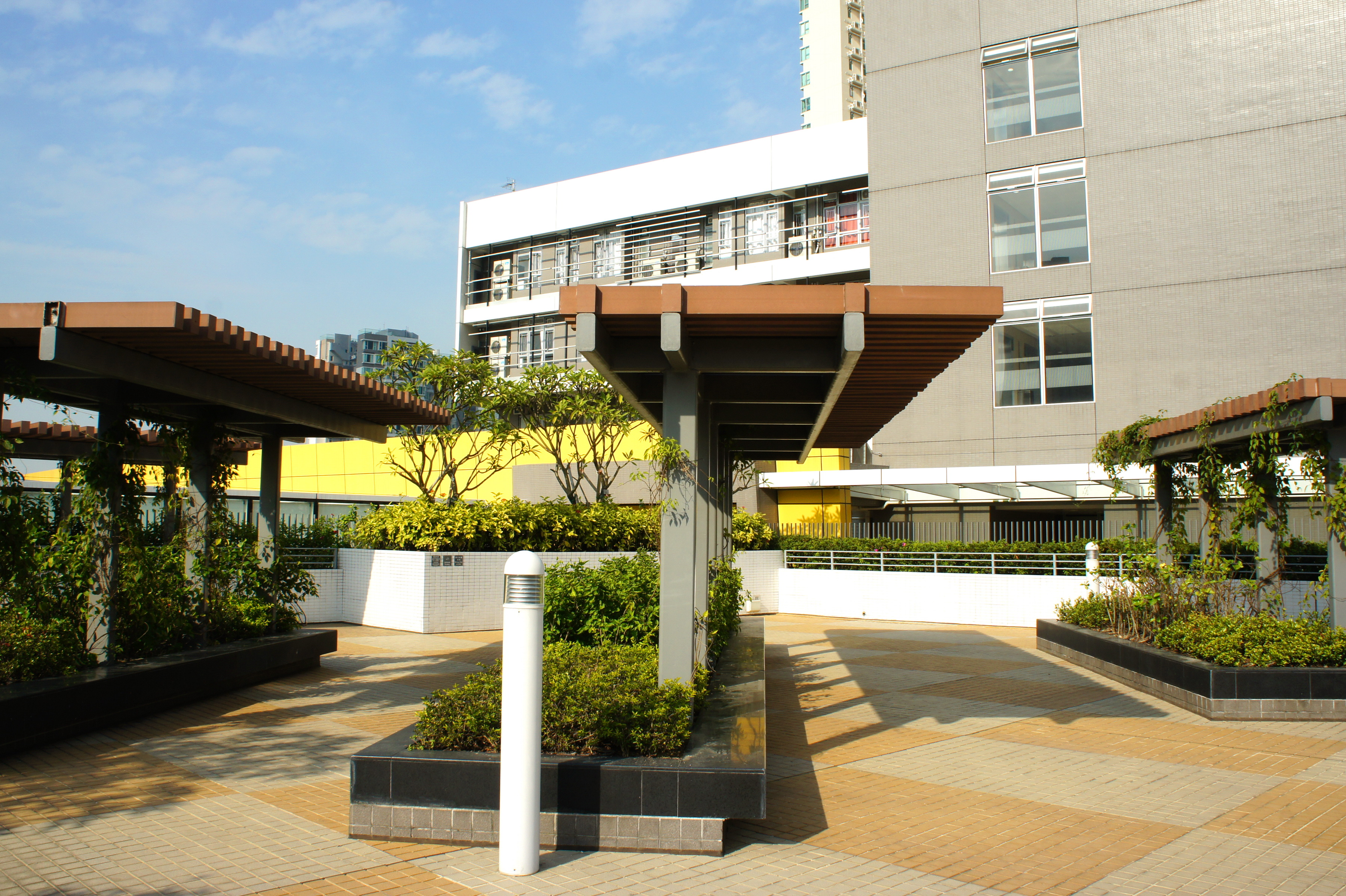 Podium Garden, Tung Chung Municipal Services Building, Tung Chung, New Territories, Hong Kong.